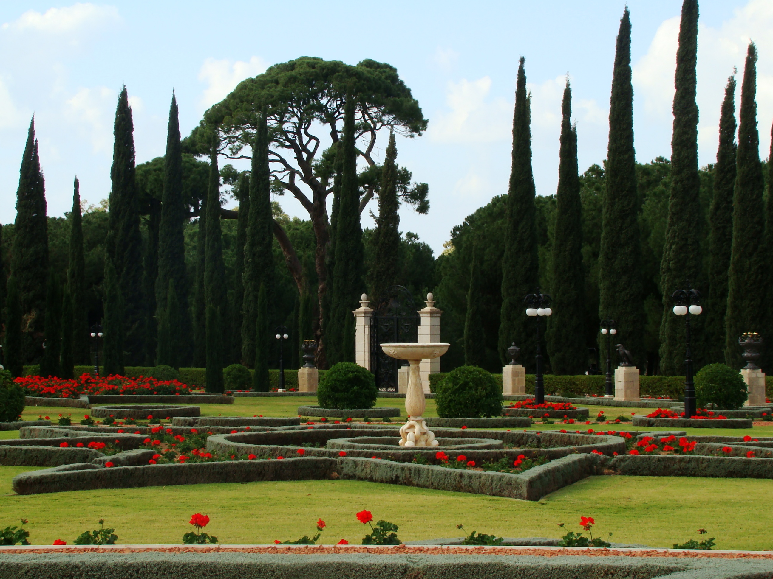 Shrine of Bahá'u'lláh, Geography of Israel